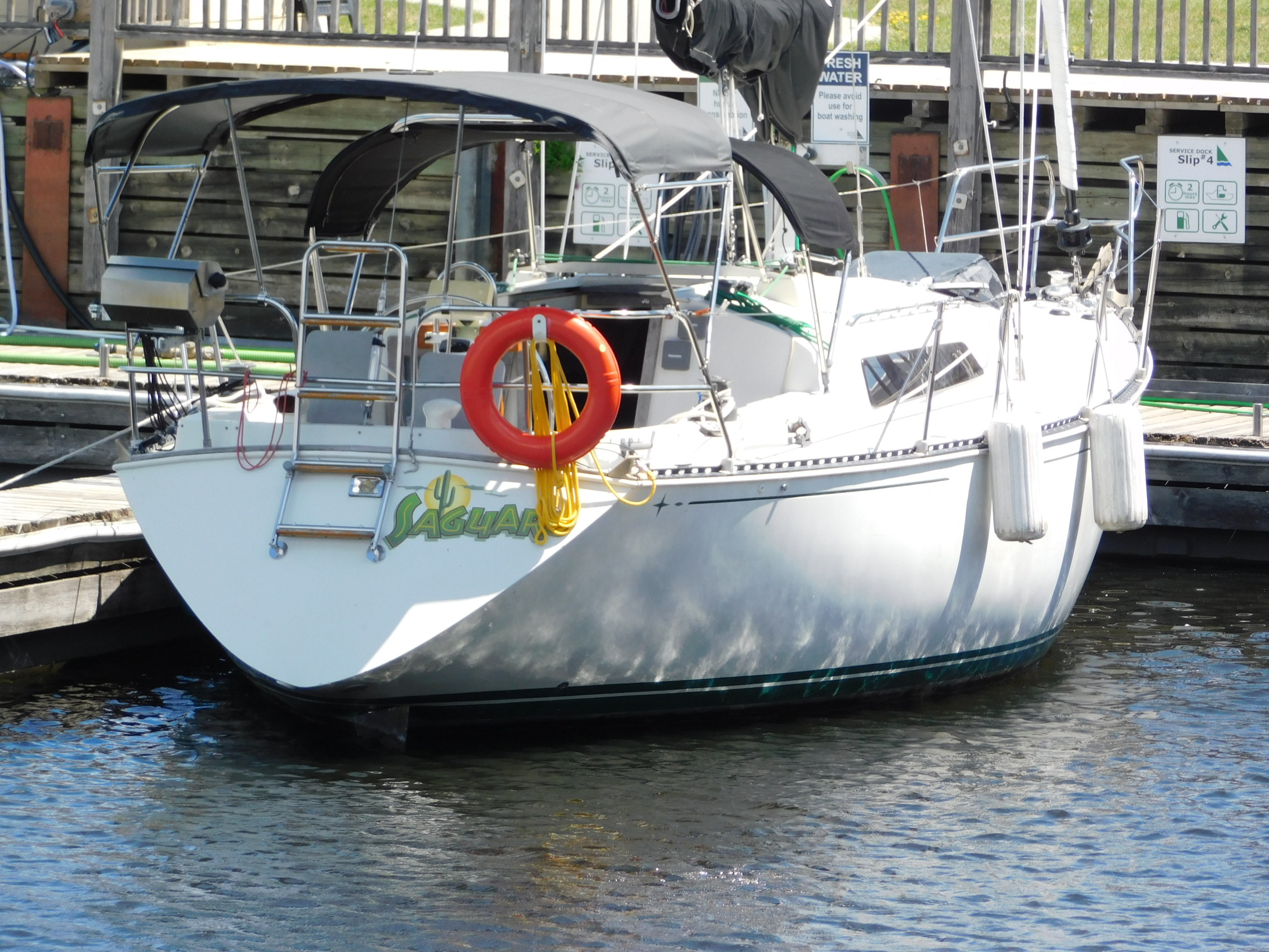 A C&C 34 sailboat named Saguaro.